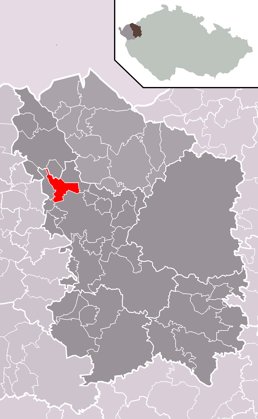 Location of Nová Role town within Karlovy Vary District and administrative area of Karlovy Vary as a Municipality with Extended Competence.